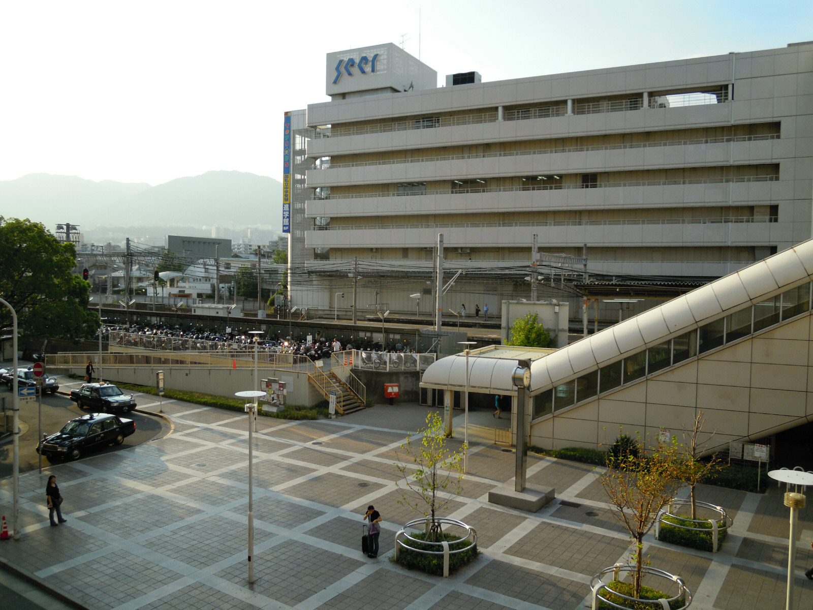 Sumiyosh station